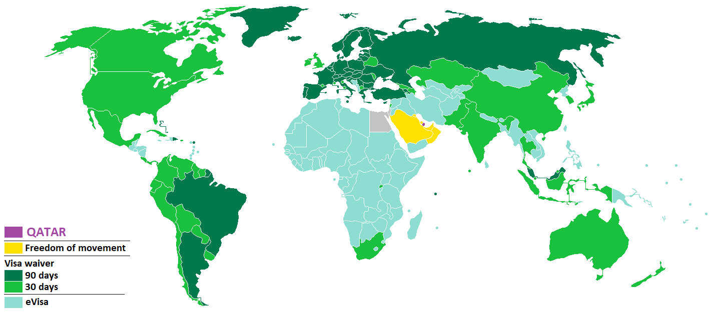 Visa policy of Qatar Qatar Freedom of movement Visa waiver on arrival (90 days) Visa waiver on arrival (30 days) eVisa Visa requiredTiếng Việt: Chính sách thị thực Qatar Qatar Đi lại tự do Giấy miễn thị thực tại cửa khẩu (90 ngày) Giấy miễn thị thực tại cửa khẩu (30 ngày) Thị thực điện tử Cần thị thực